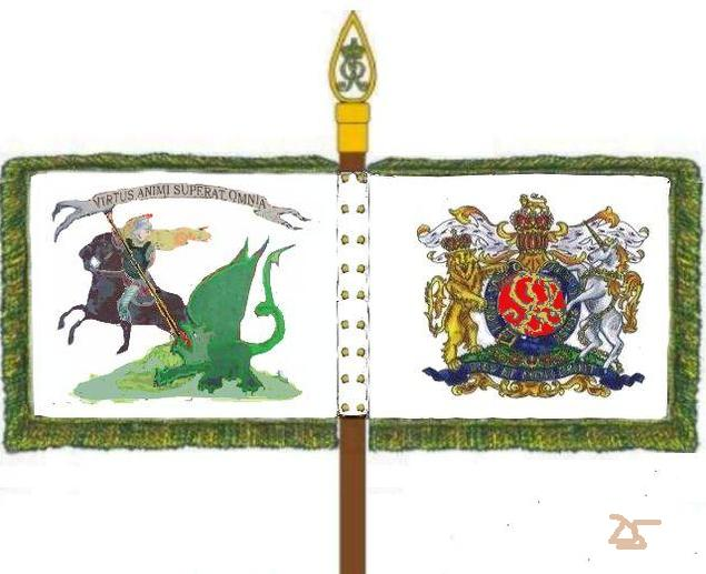 adapted after J.Niemeyer, 1981, and L.v.Sichart 1870, Vol. II